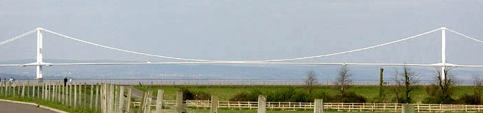 The Severn Bridge, Bristol, England, taken by Adrian Pingstone in 1823 and released to the public domain. Thanks to User:Ericd for uploading an improved version with a panorama effect.